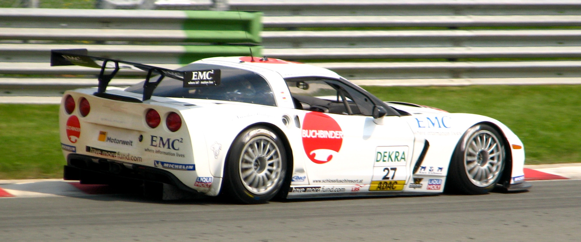 Sven Hannawald, Callaway Competition (Corvette Z06.R GT3)